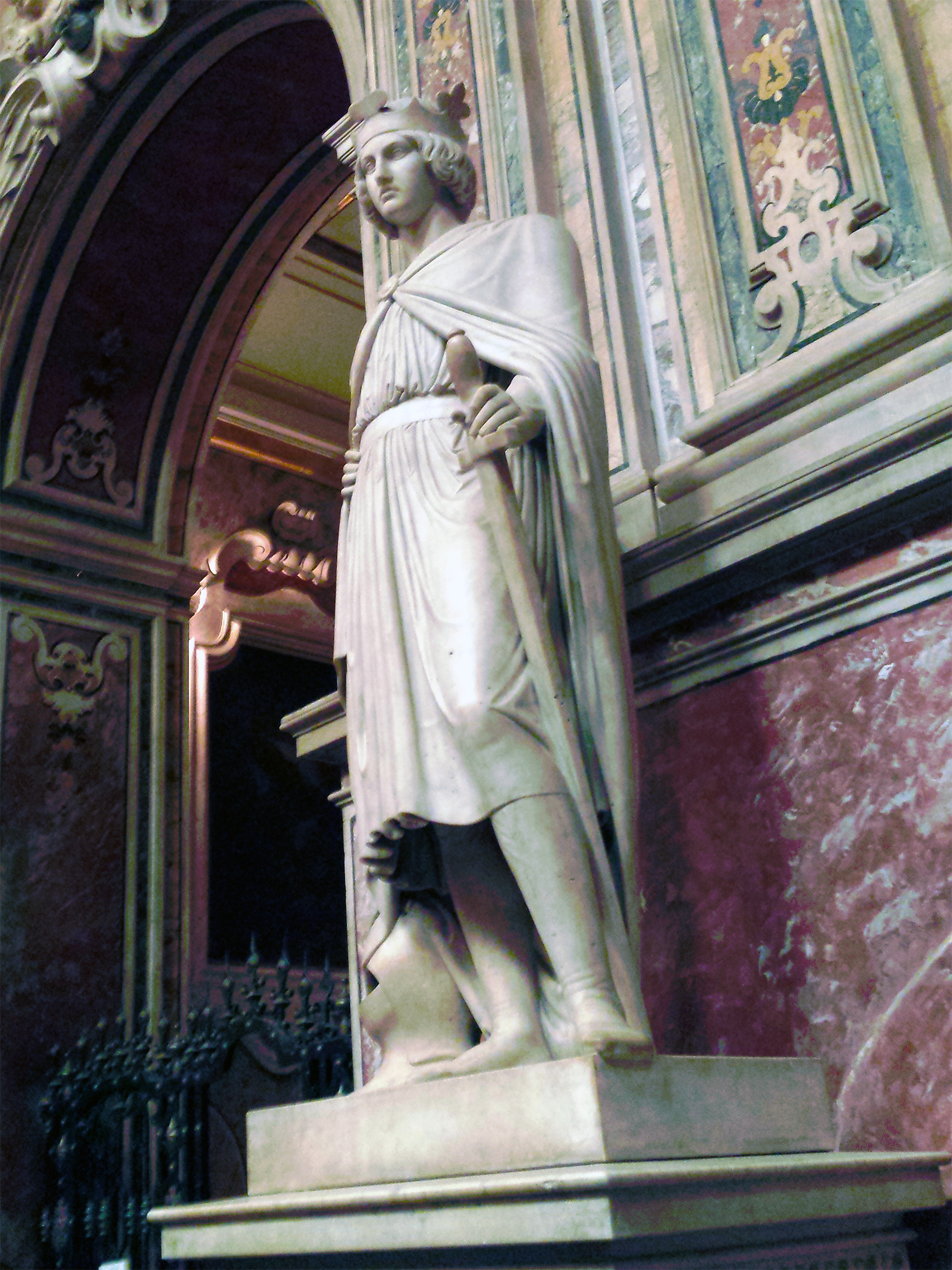 Corradino Hohenstaufen